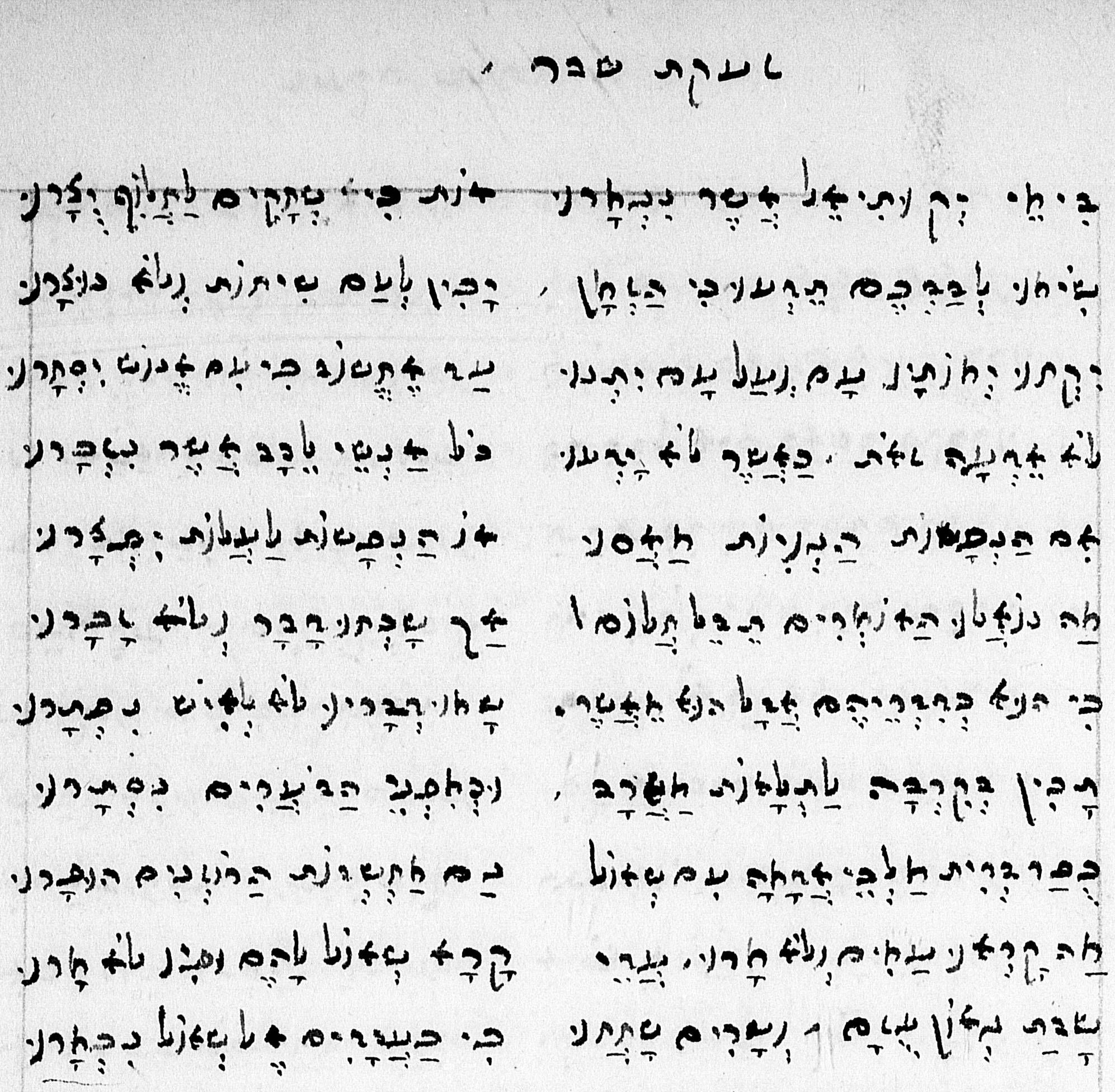 The beginning of a lamentation by Solomon ibn Gabirol for Yekutiel ibn Hassan, who was executed in 1039; a manuscript from the 19th century, from the Ktiv site of The National Library of Israel